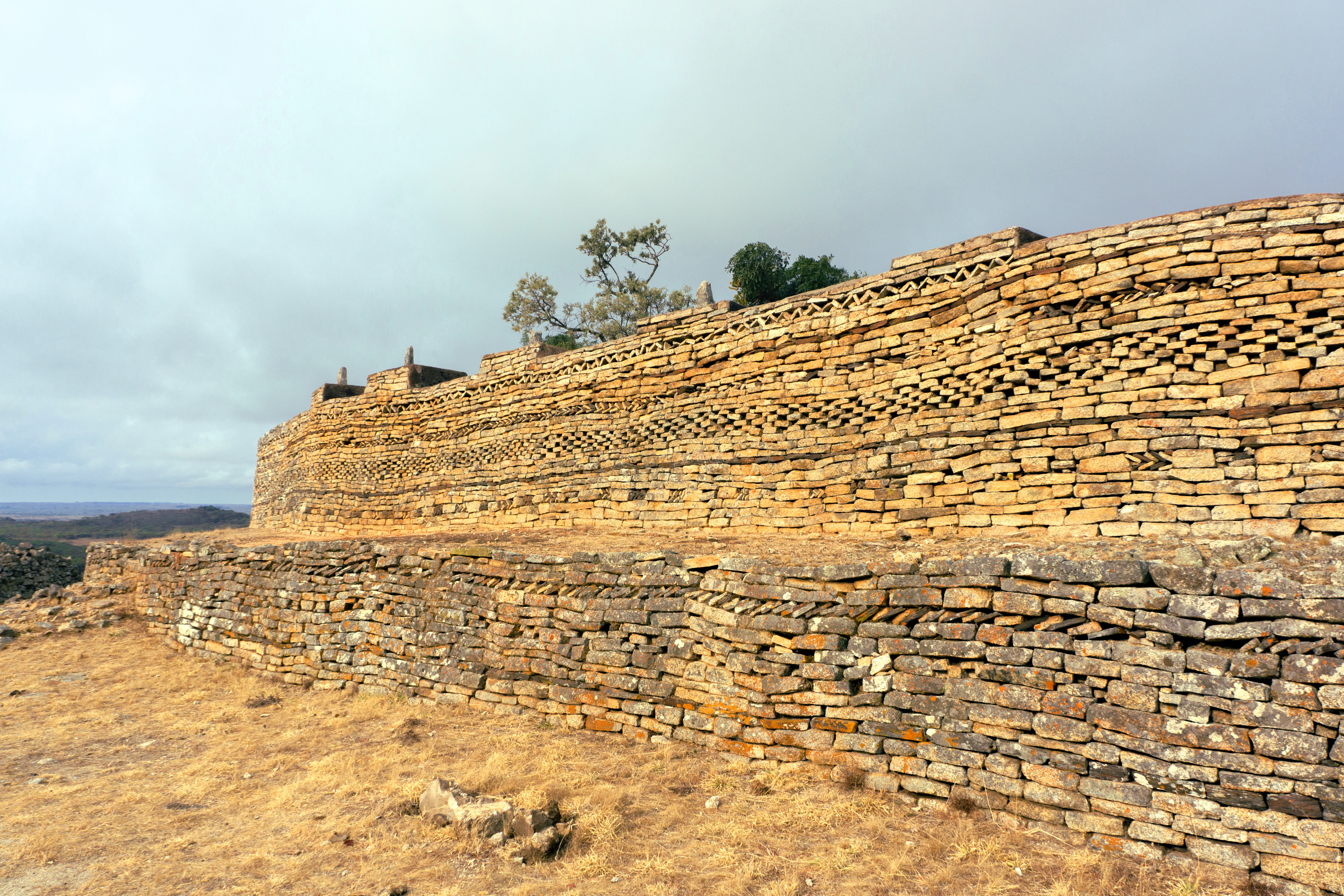 The making of this document was supported by Wikimedia CH. (Submit your project!) For all the files concerned, please see the category Supported by Wikimedia CH. Naletale Ruins